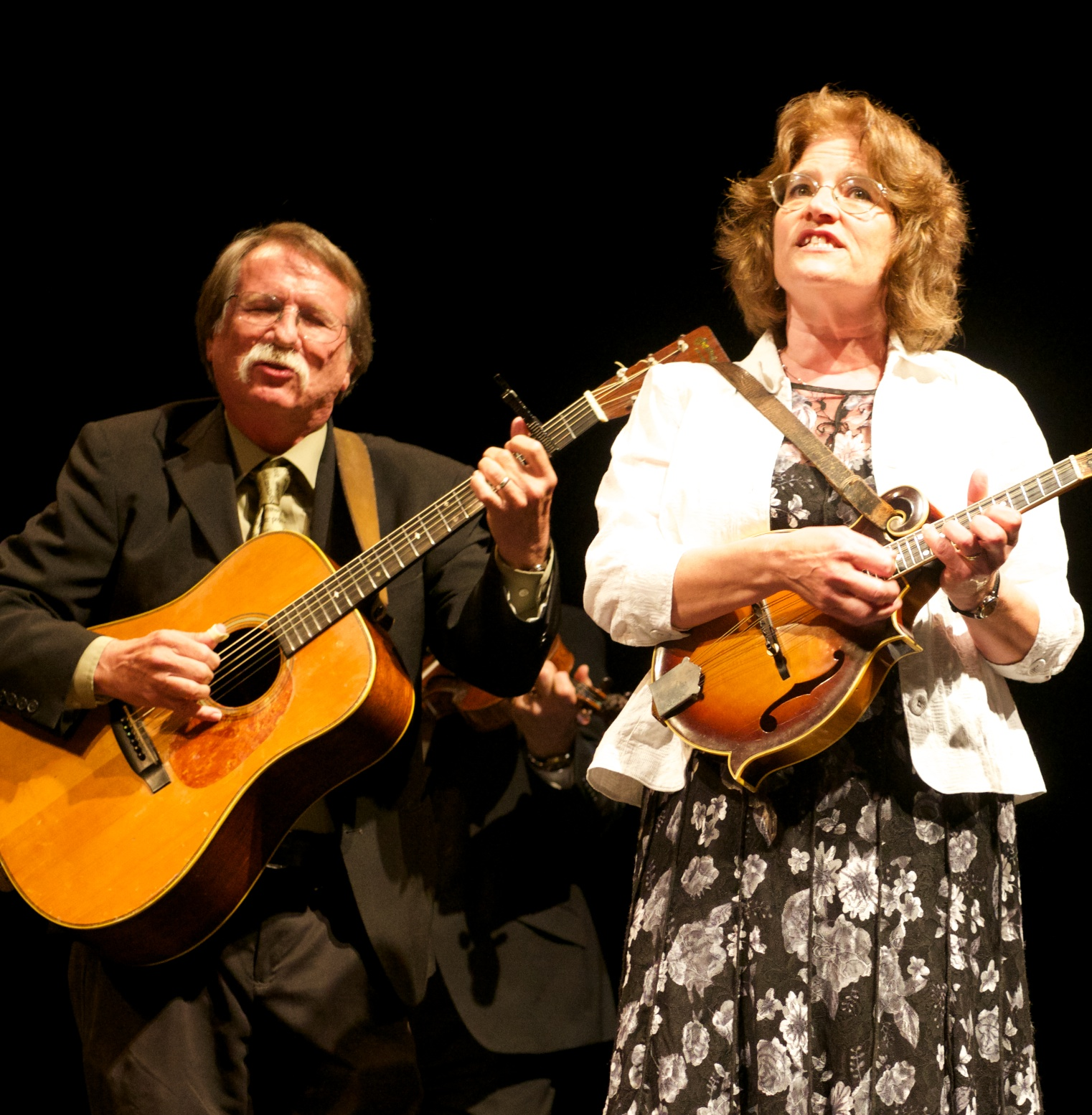 McLain Family Band on stage at the 2014 Festival of Faiths Wendell Berry & Gary Snyder program.